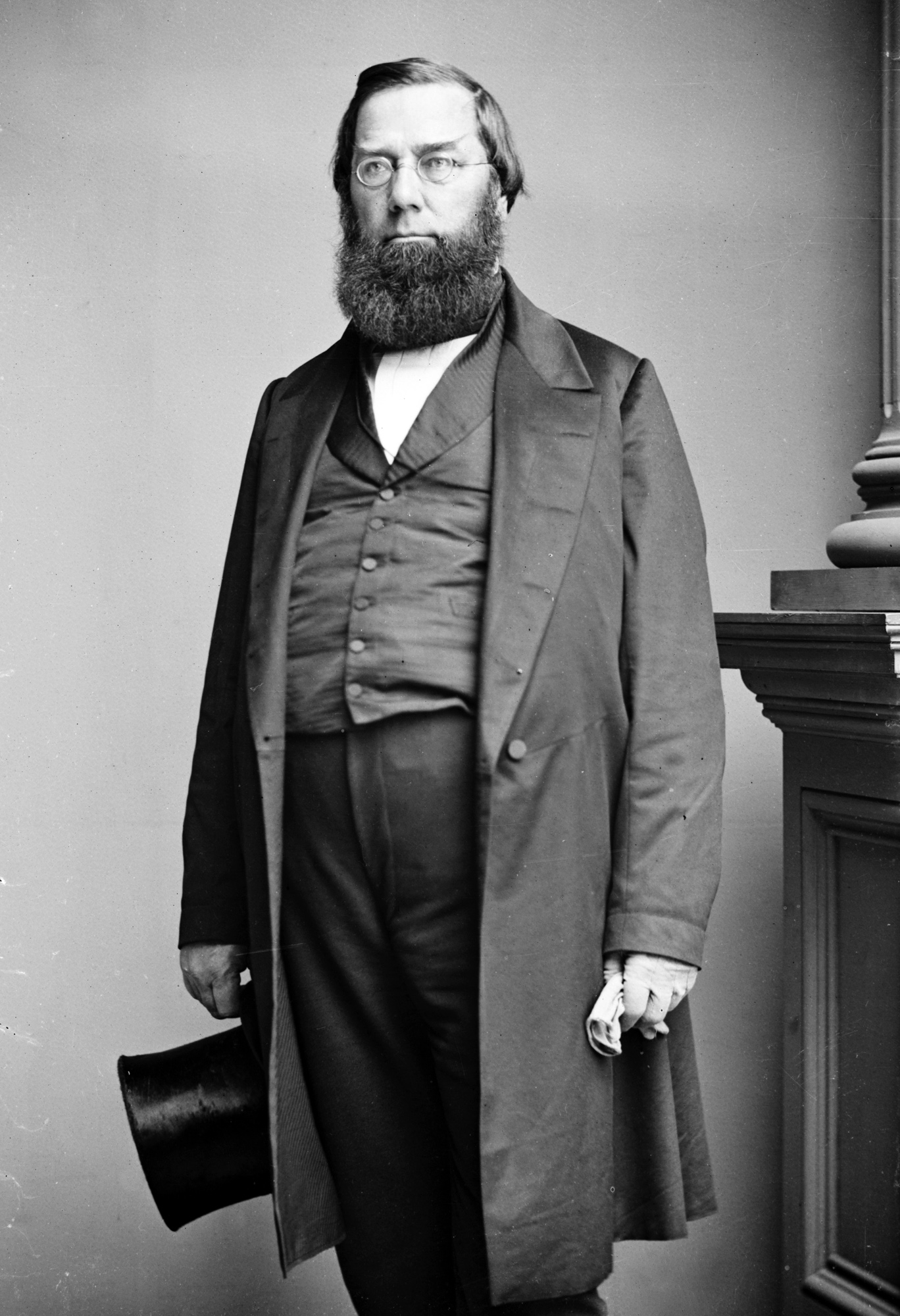 TITLE: Hon. George Perkins Marsh of Vermont CALL NUMBER: LC-BH82- 4981 A [P&P] REPRODUCTION NUMBER: LC-DIG-cwpbh-02223 (b&w copy scan) No known restrictions on publication. MEDIUM: 1 negative : glass, wet collodion. CREATED/PUBLISHED: [between 1855 and 1865] NOTES: Title from unverified information on negative sleeve. Annotation from negative, scratched into emulsion: Brady N.Y. Forms part of Brady-Handy Photograph Collection (Library of Congress). FORMAT: Portrait photographs 1850-1870. Glass negatives 1850-1870. REPOSITORY: Library of Congress Prints and Photographs Division Washington, D.C. 20540 USA DIGITAL ID: (b&w scan) cwpbh 02223